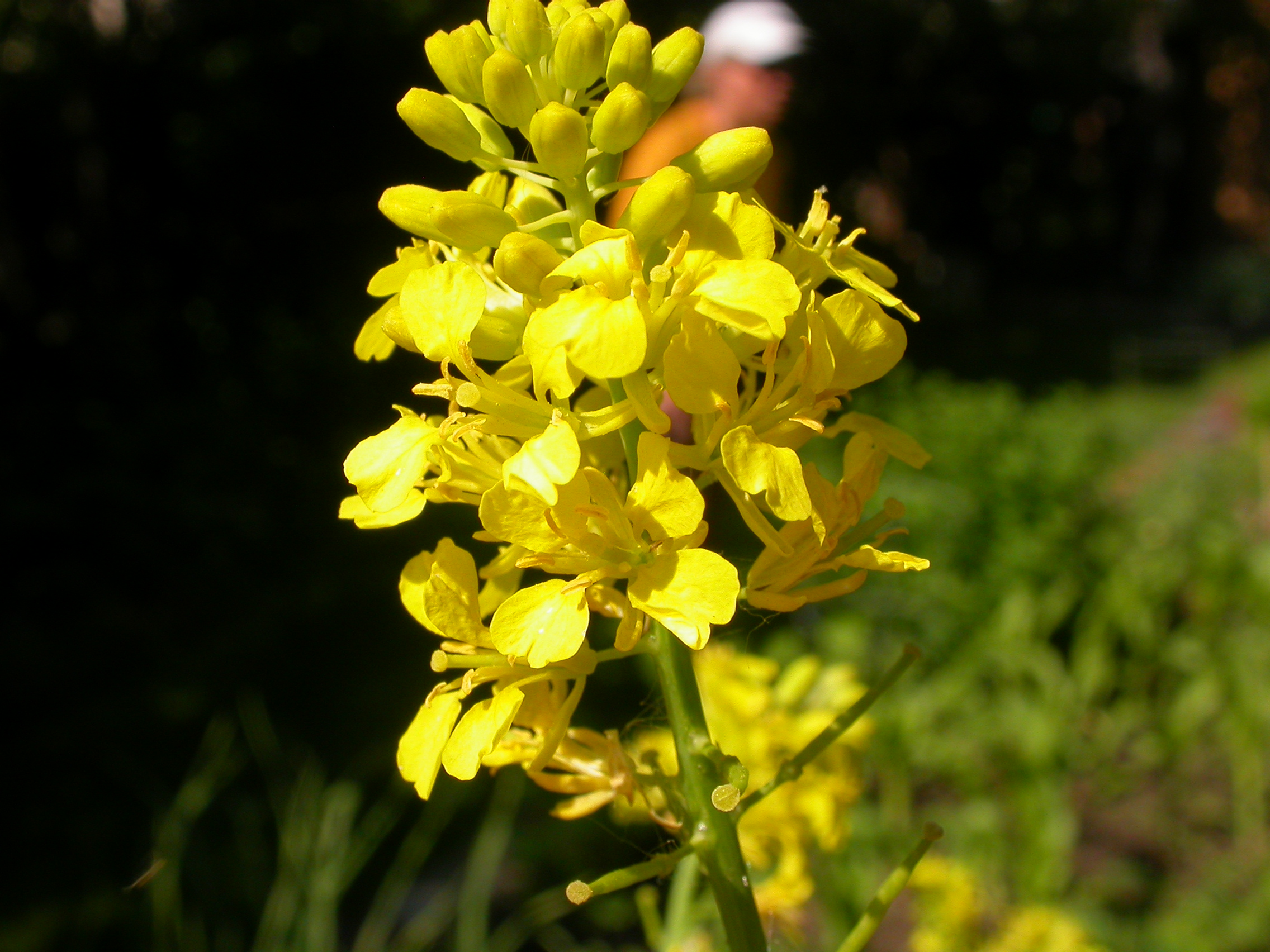 The inflorescence is a panicle of spicate branches.